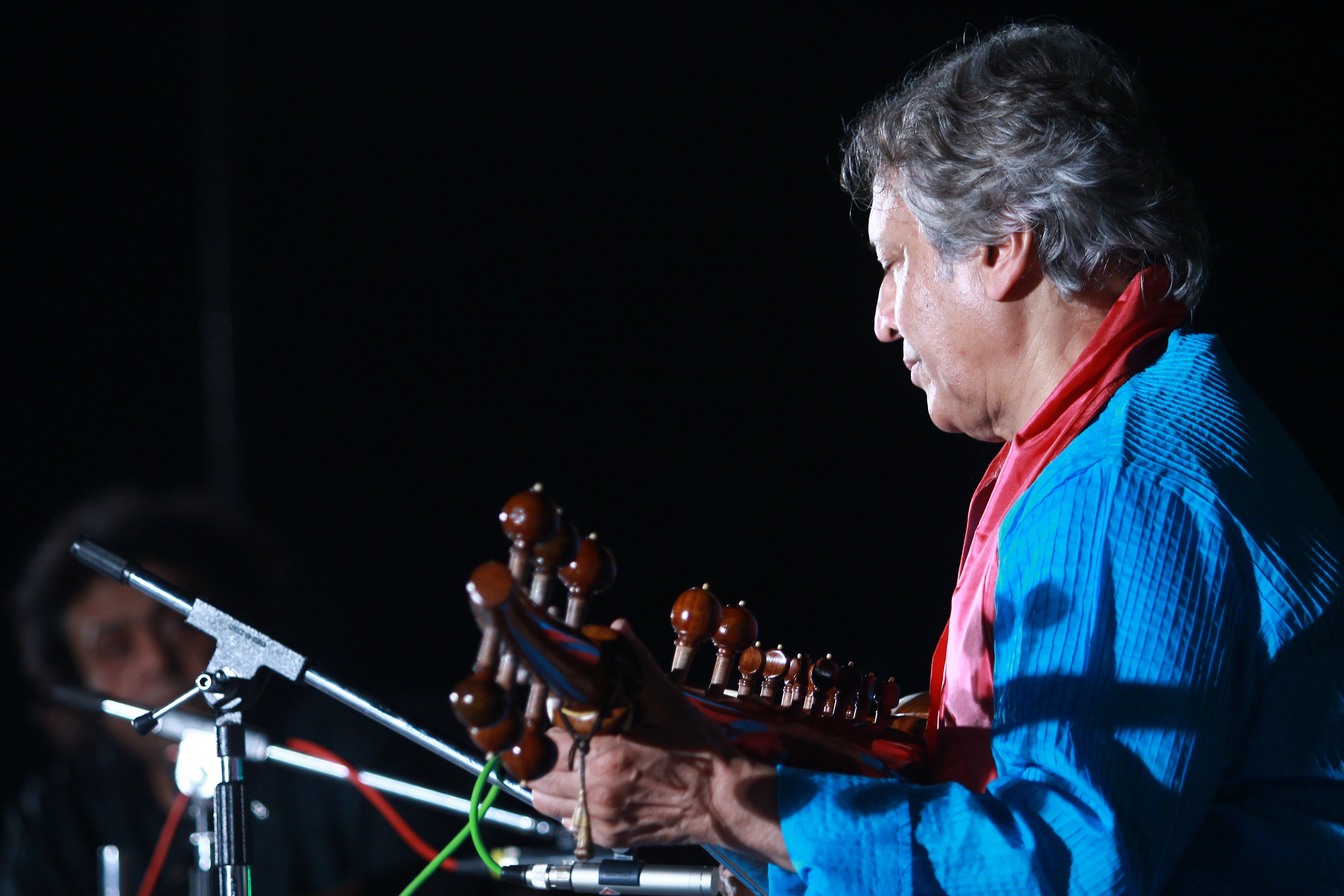 Amjad Ali Khan is an Indian classical musician who plays the Sarod